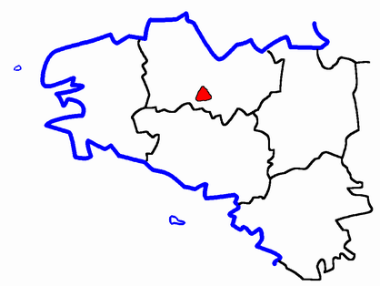 Description: Map for localisazion of cantons of Bretagne region in France Source: made by Hervé Tigier in april 2005 from another large map (published in 1990)